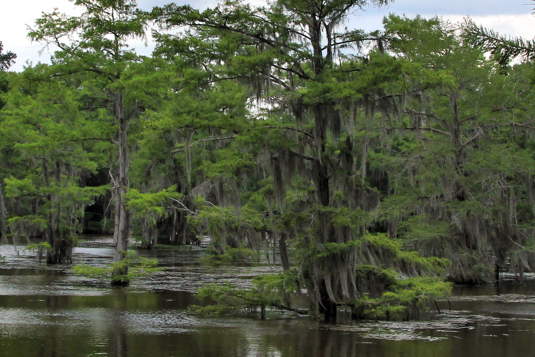 Trees in Caddo Lake, Texas, United States